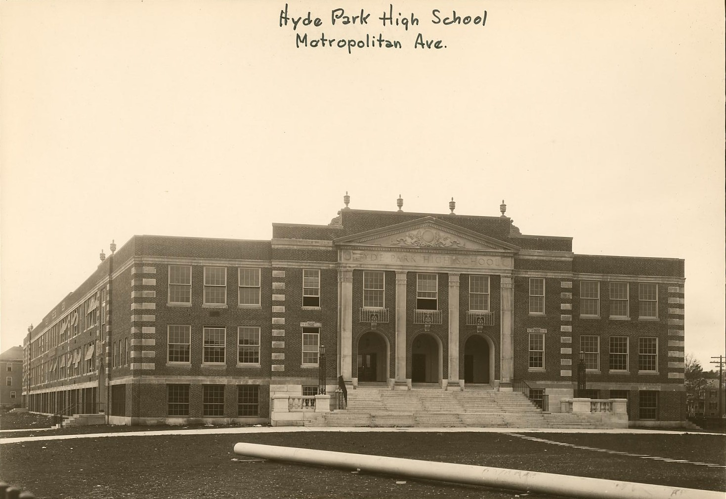 Hyde Park High School: Exterior